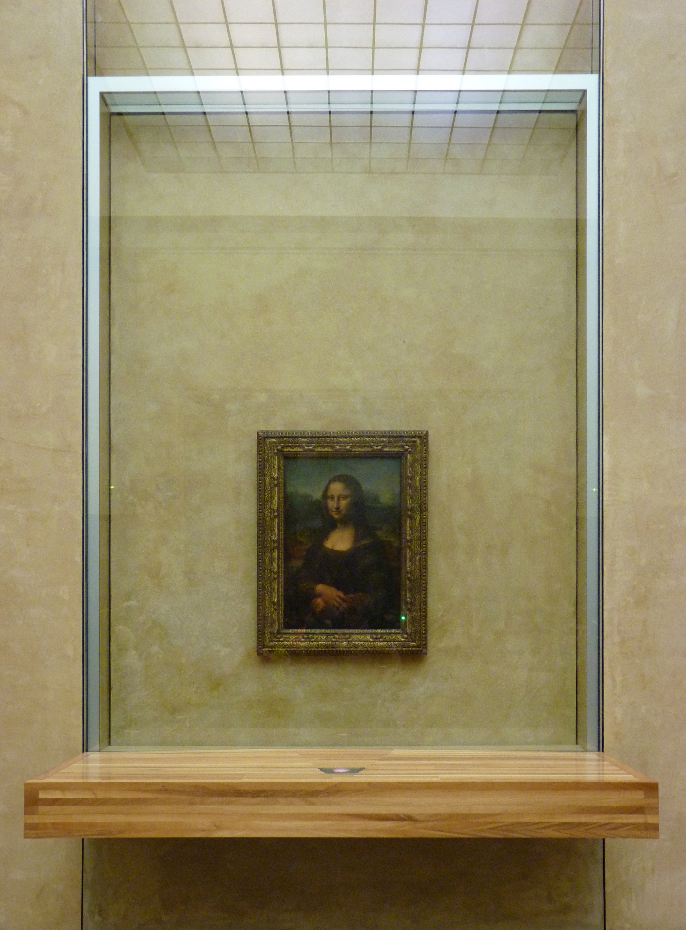 Mona Lisa